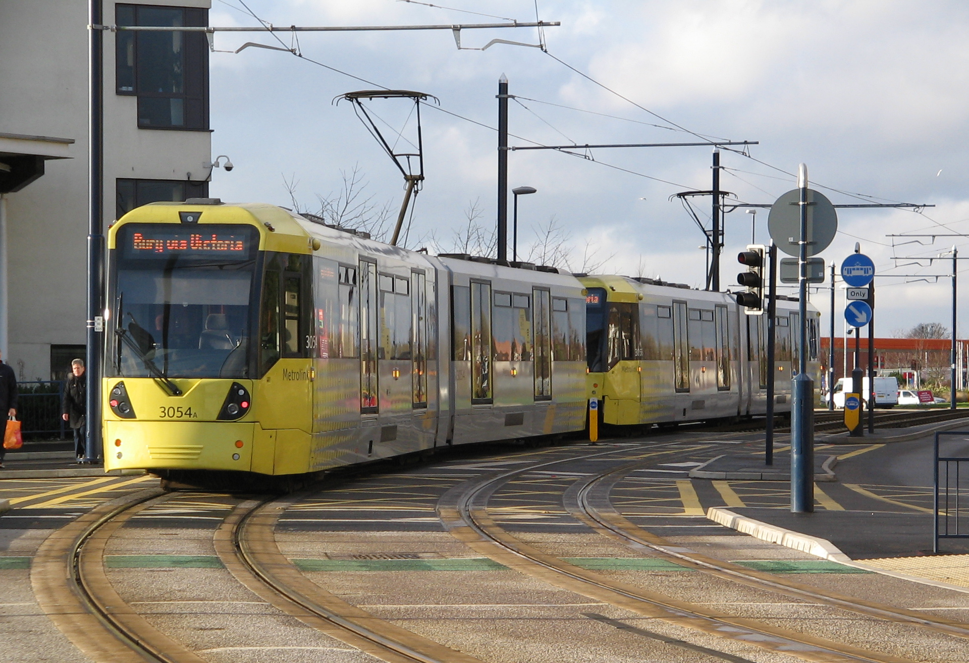 M5000 trams working in multiple in Ashton-under-Lyne